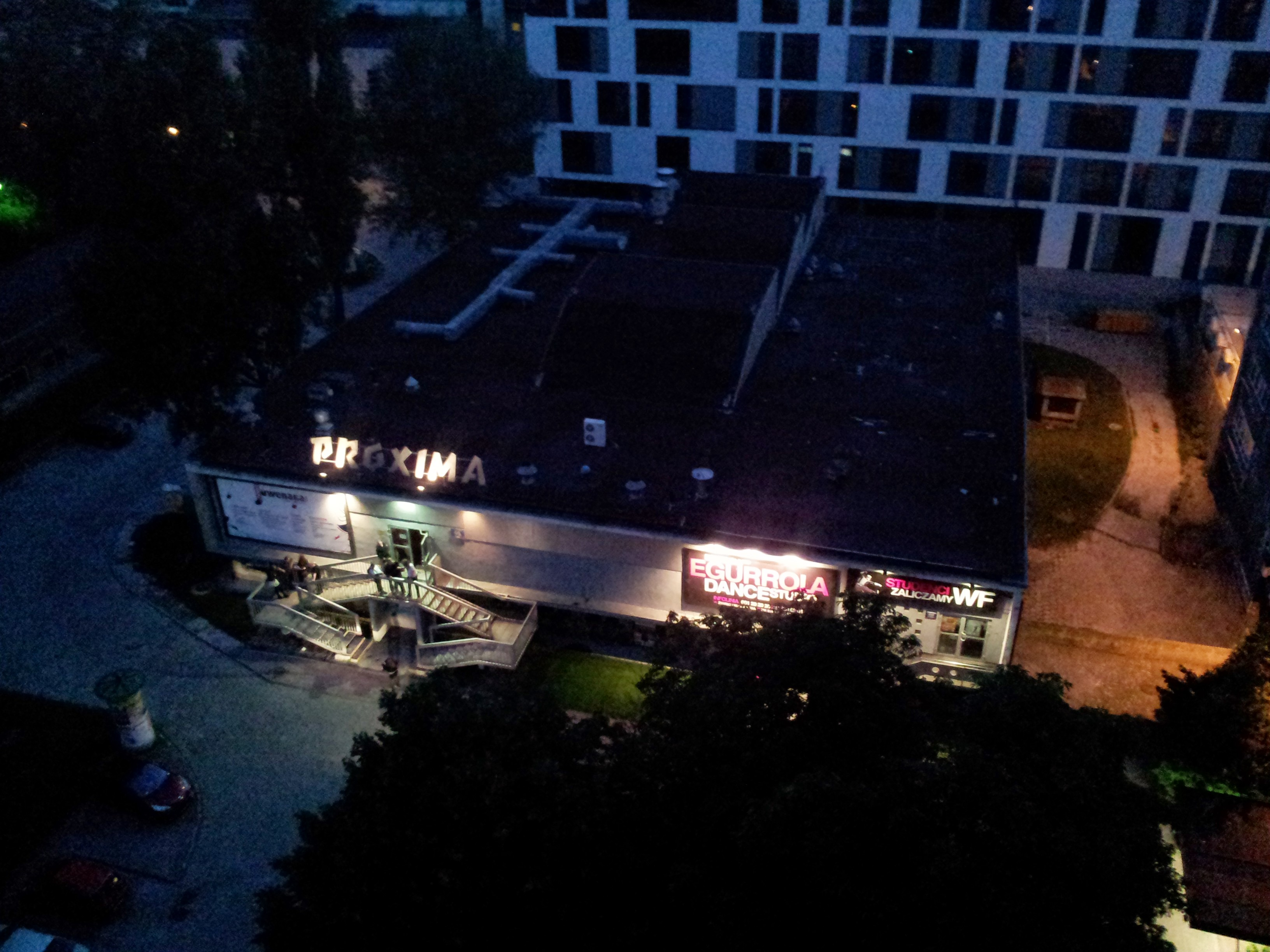 Proxima club in Warsaw seen from the balcony of University of Warsaw Dormitory No 2 "Żwirek"